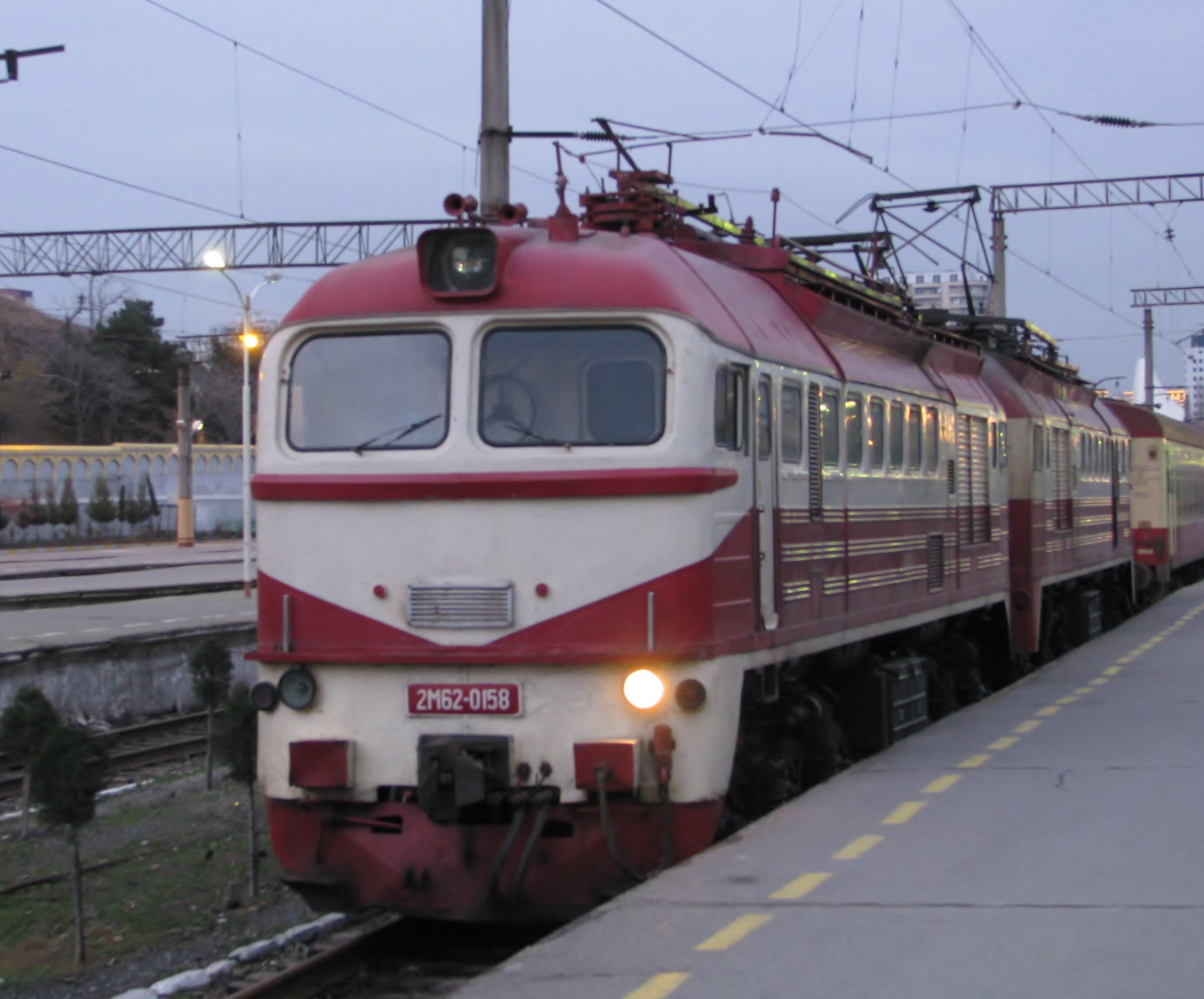 Electric locomotive 2M62 (modernization of diesel locomotive) at Baku Station